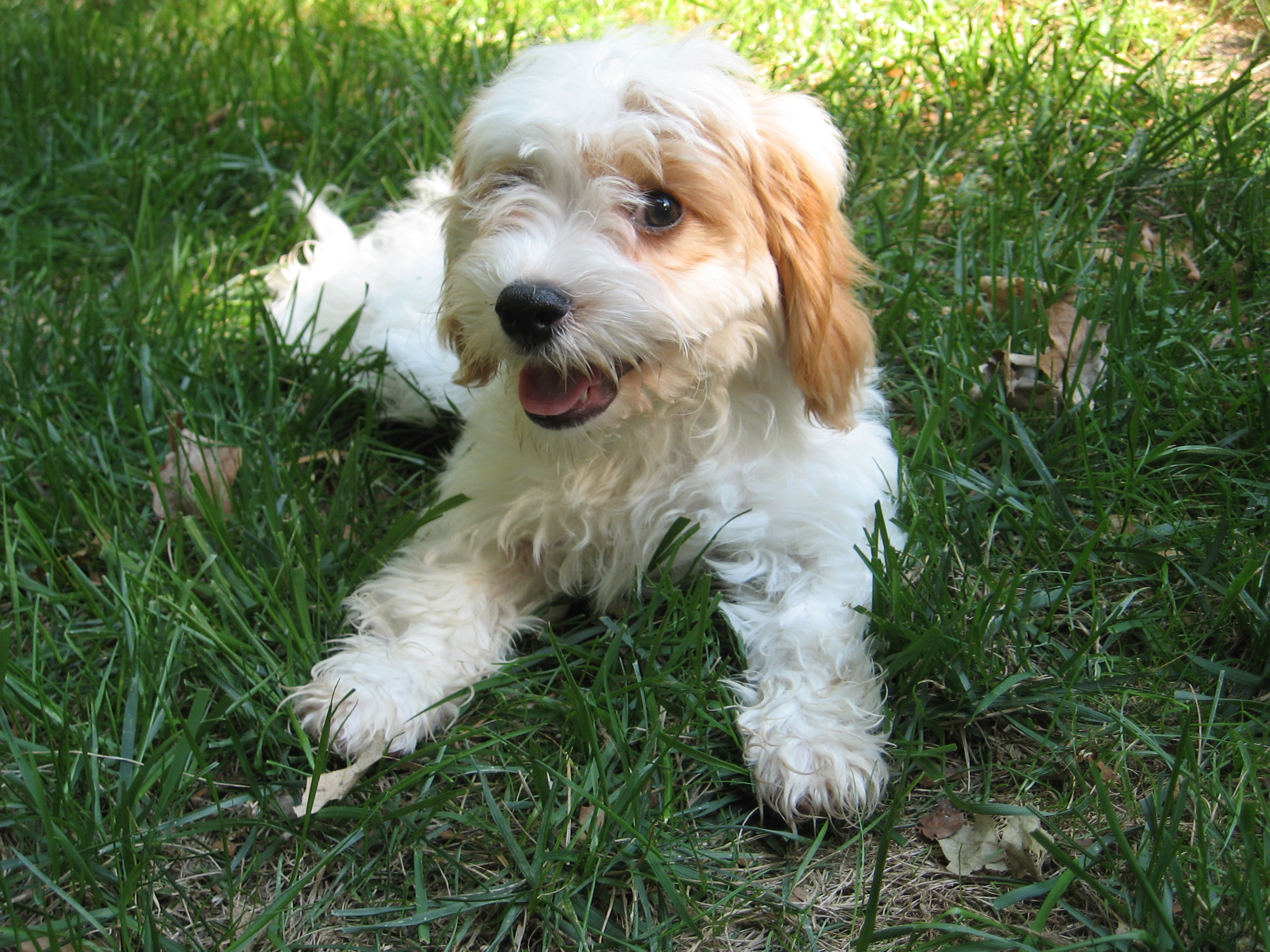 Cavapoo puppy. (Cross between Cavalier King Charles Spaniel and Poodle